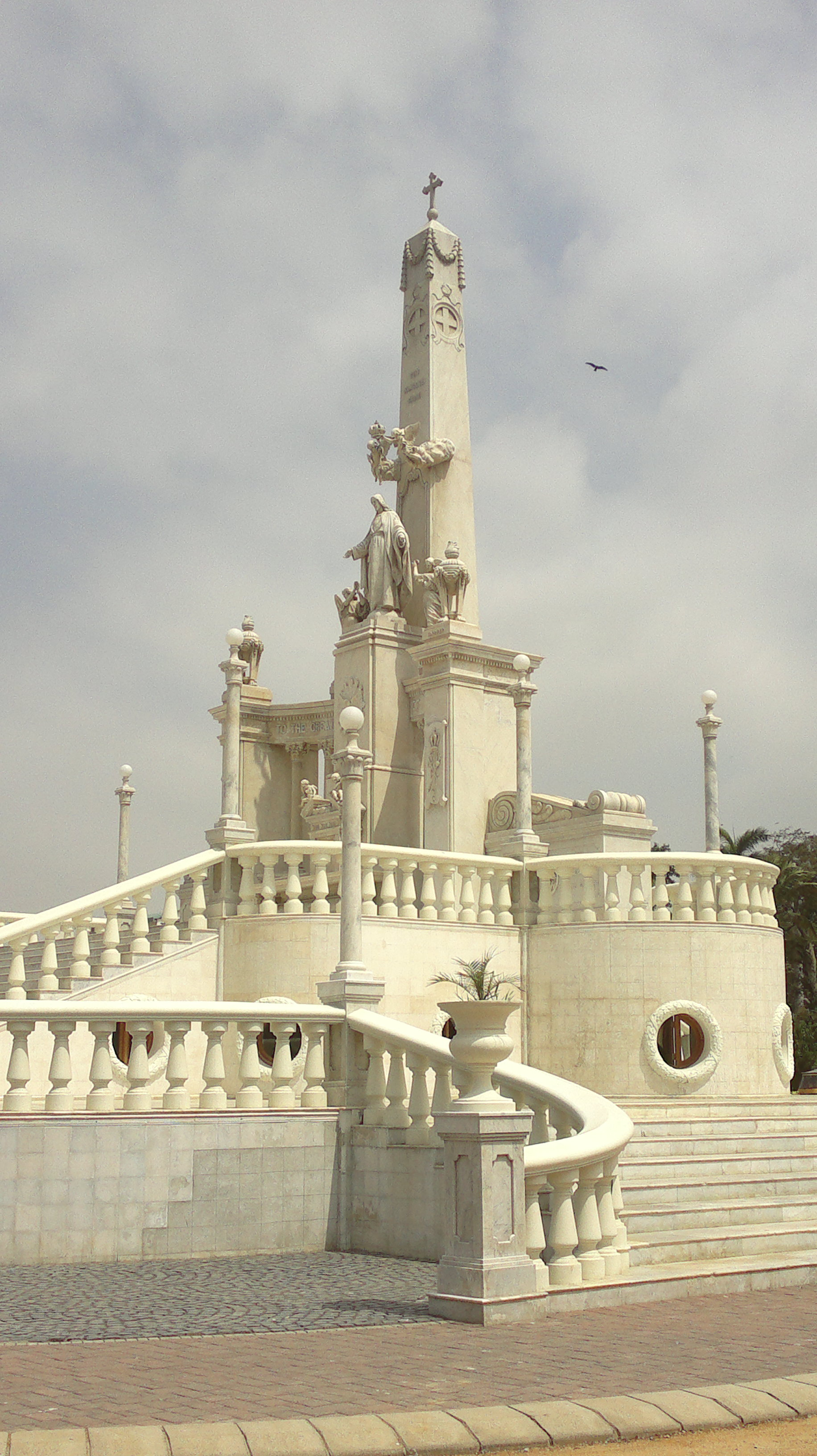 St. Patrick's Cathedral This is a photo of a monument in Pakistan identified as the SD-P-187